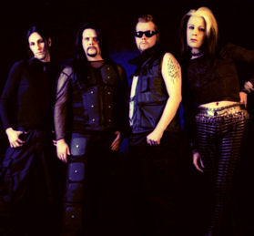 British band Killing Miranda